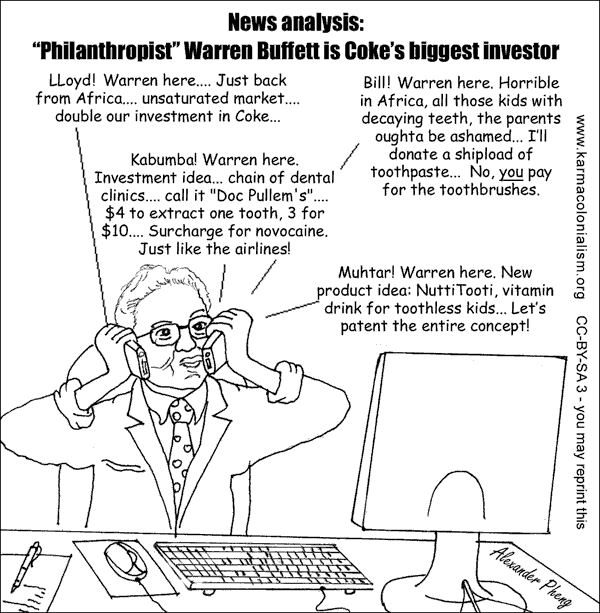 A cartoon shows Warren Buffett simultaneously investing in Coke, which attacks the health of children in poor countries, and sending them a shipload of toothpaste.